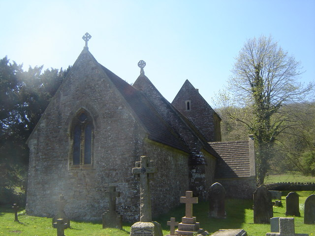 St Brigid's Church, St Bride's Netherwent